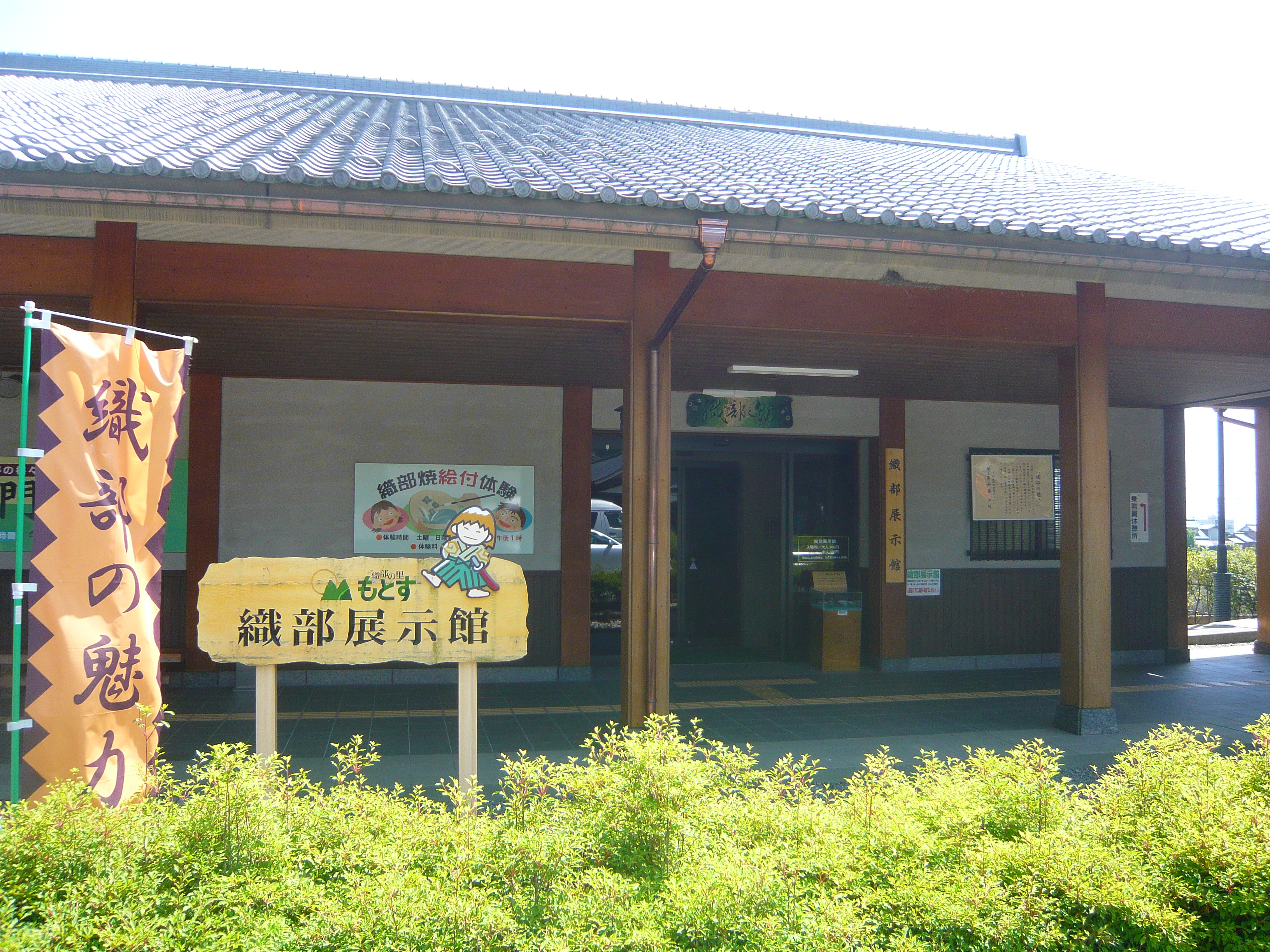 Oribe no Sato Motosu (Roadside Station), Motosu, Gifu, Japan